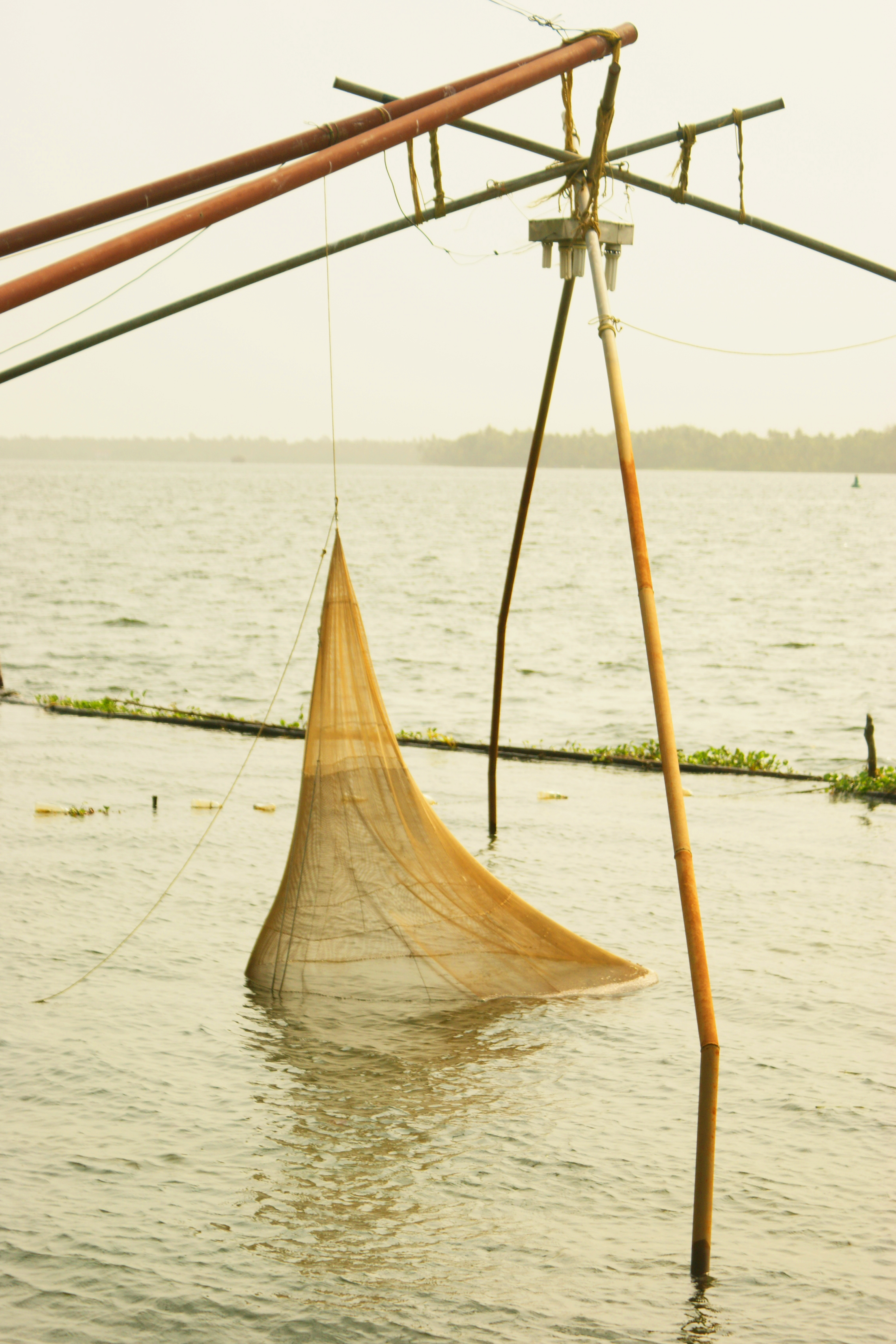 Submerged chinese fishing nets.